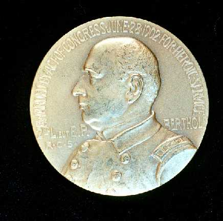 Ellsworth P. Bertholf Congressional Gold Medal (front)